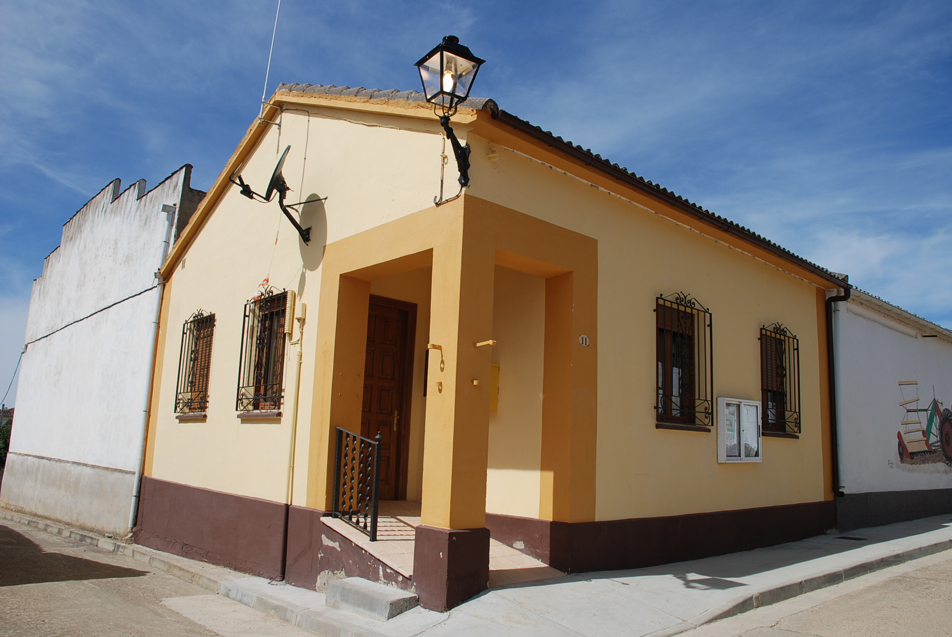 Town hall in Olea de Boedo (Palencia, Castile and León).